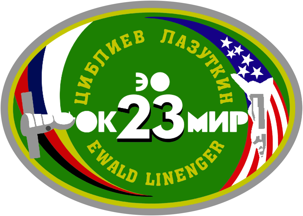 The official crew patch for the Russian Soyuz TM-25 mission, which delivered the EO-23 crew to the space station Mir.